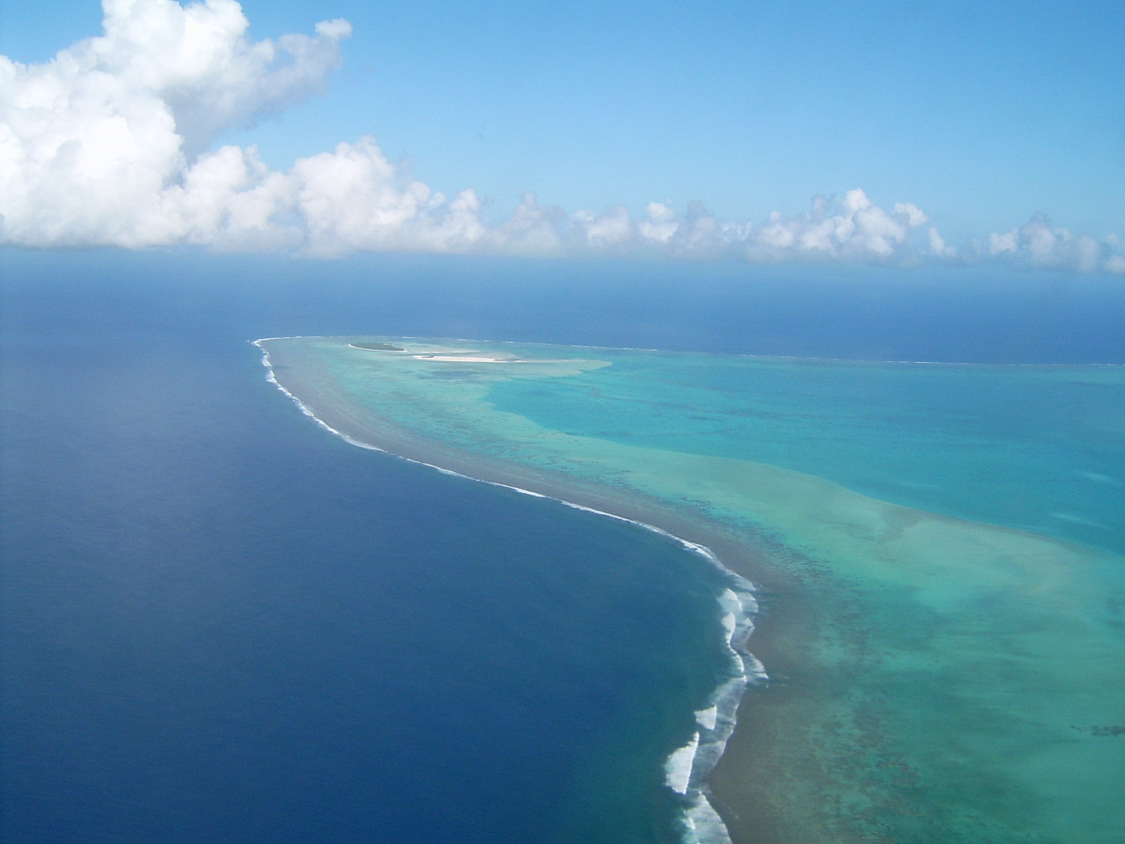 The islet Motu Maina in the southwest corner of Aitutakis lagoon in the Cook Islands. The full name of the islet is Maina ina ra ote muna korero